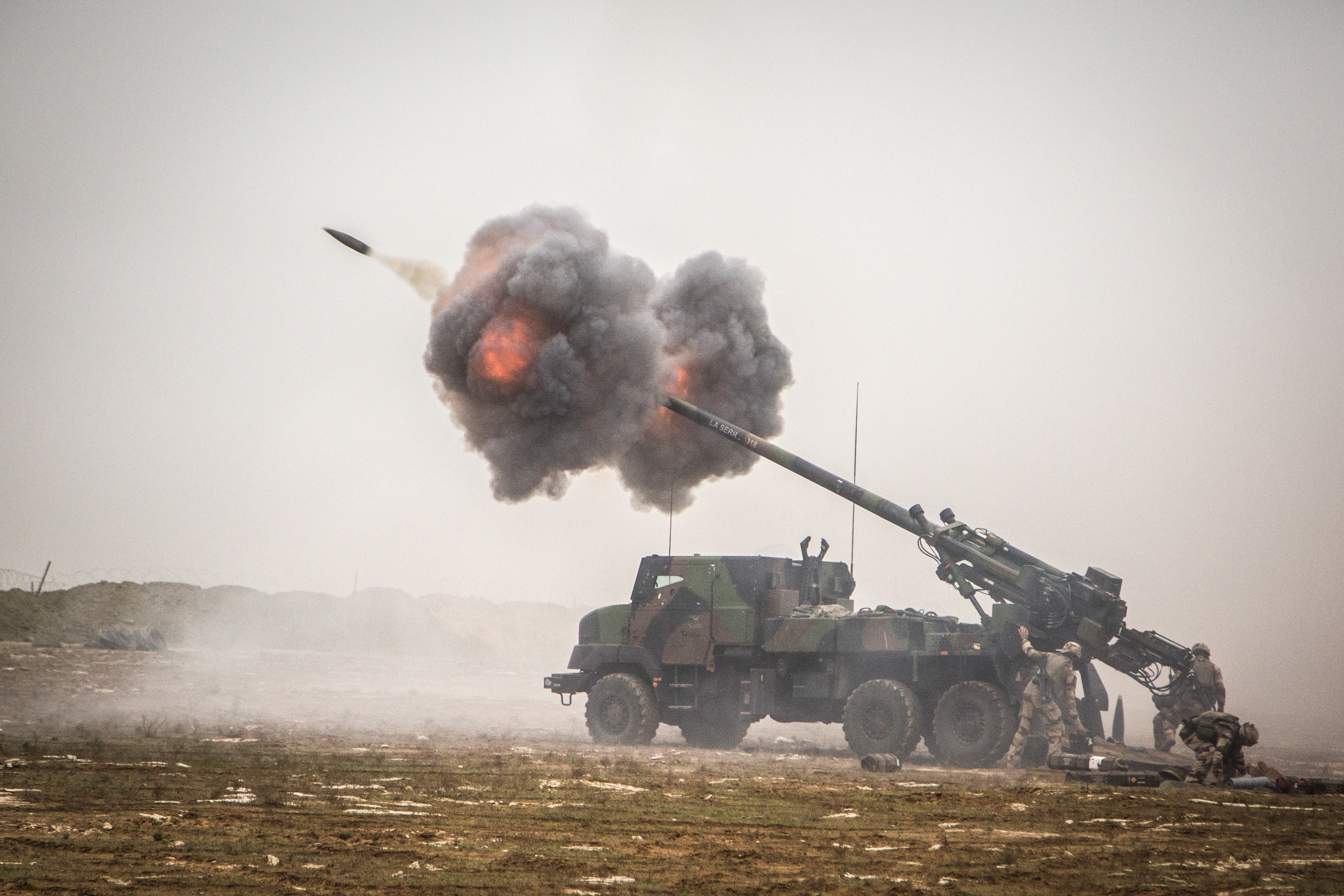 French Caesar self-propelled howitzer fires into the Middle Euphrates River Valley, 2 December 2018